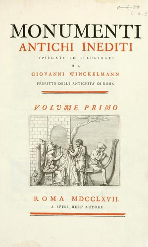 Cover of book Vinkelman Monumenti Antichi Inetiti (1767)